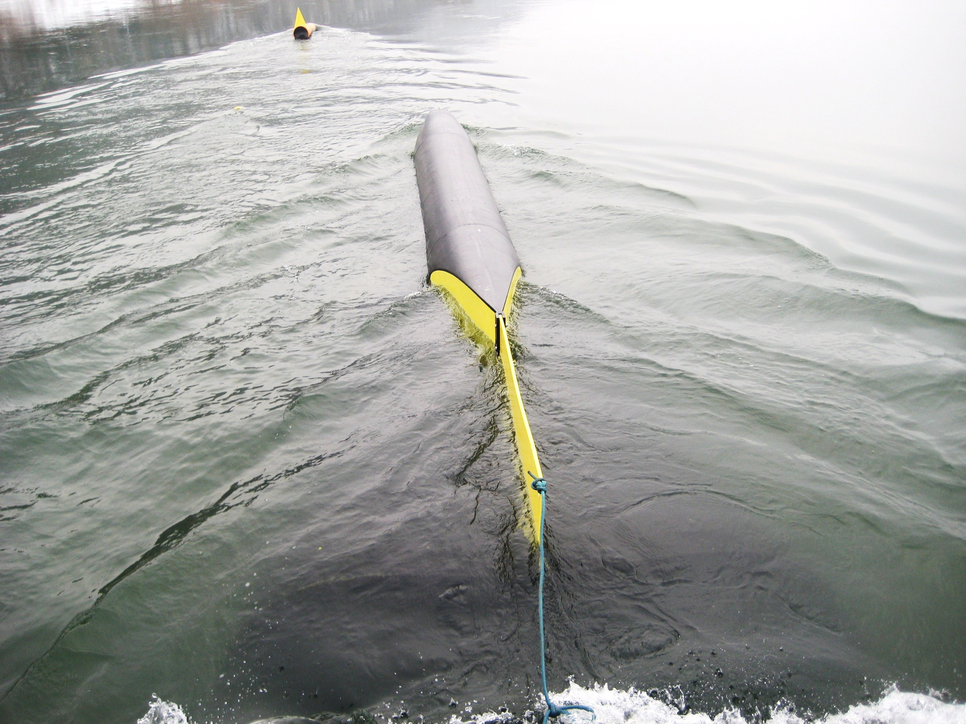 A small swimming run-of-the-river power plant (model 'Strom-Boje' by the company Aqua Libre).